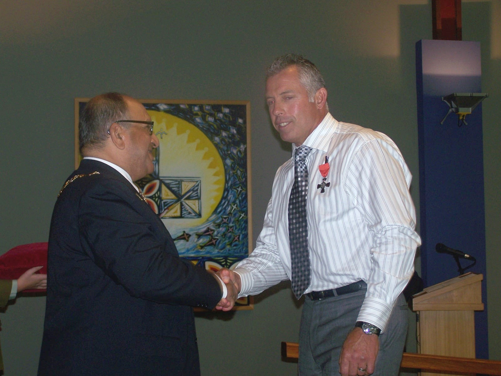 Steve Williams (right), after his investiture as MNZM, for services to youth sport and recreation, by the governor-general, Anand Satyanand, at Government House, Auckland, on 17 Apri 2008.